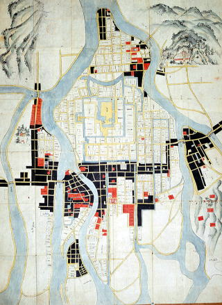 Map of the Jōkamachi Hiroshima, Japan, c. 1700